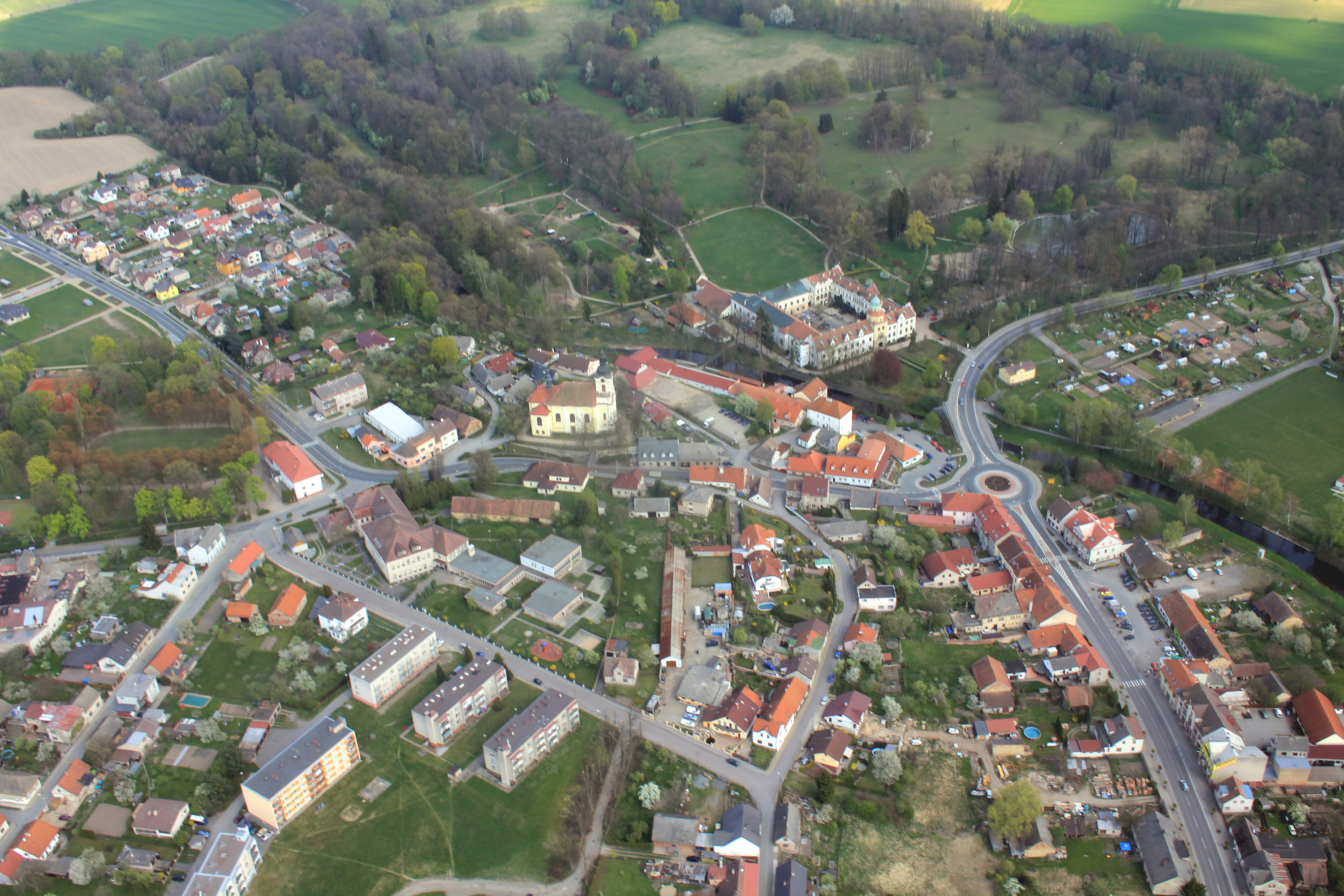 Small town Častolovice from air, eastern Bohemia, Czech Republic